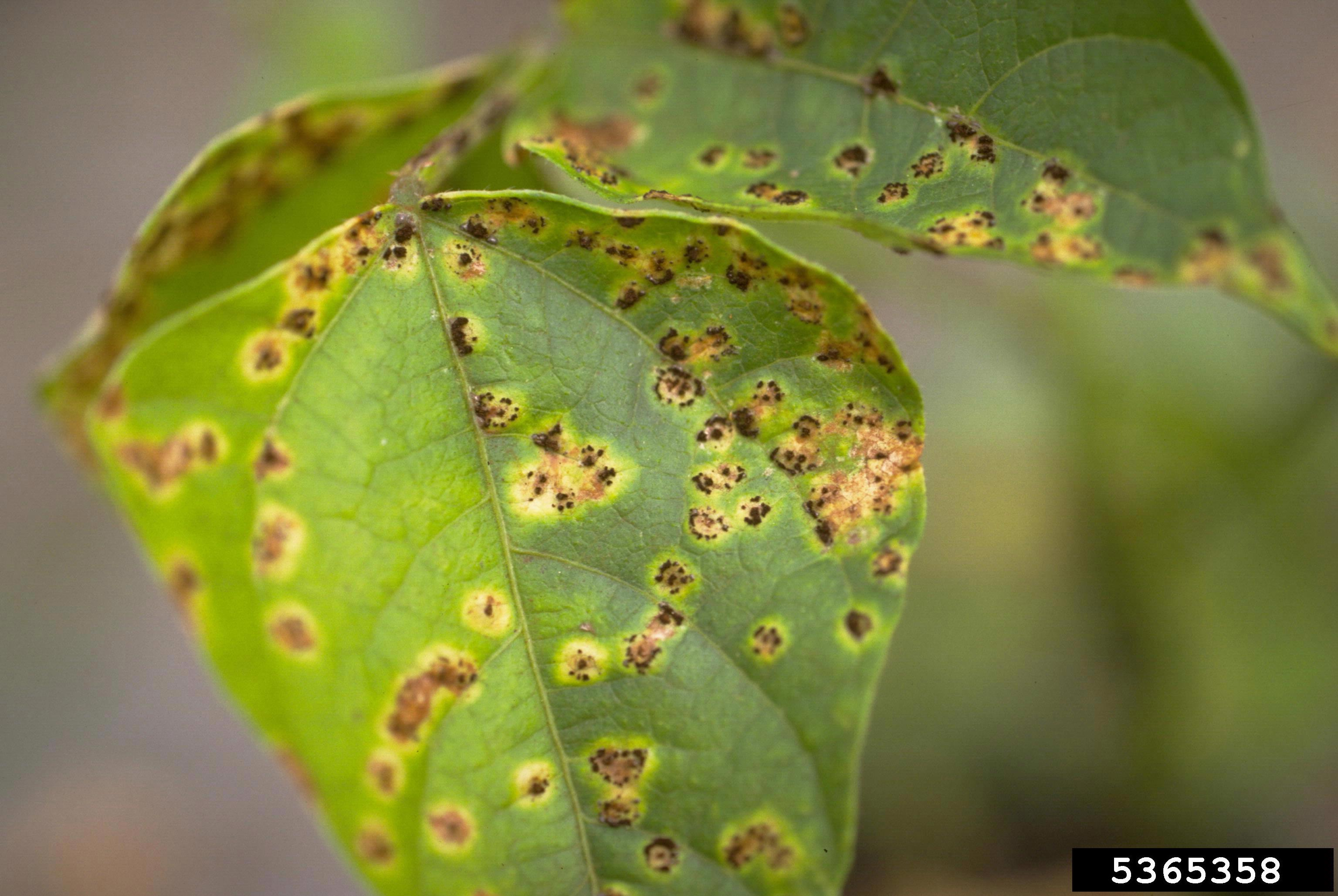 Uromyces appendiculatus telia